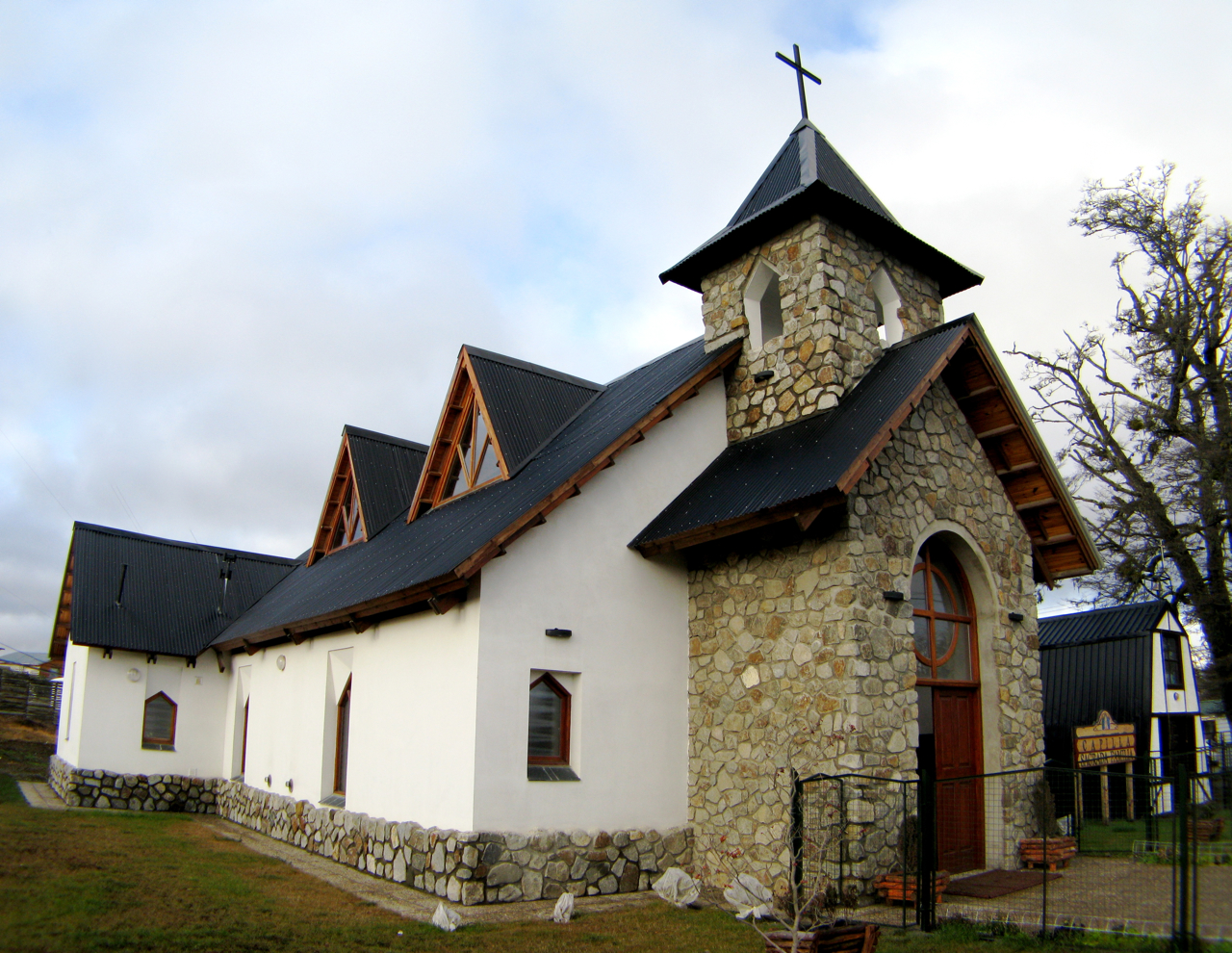 Church Tolhuin Tierra del Fuego